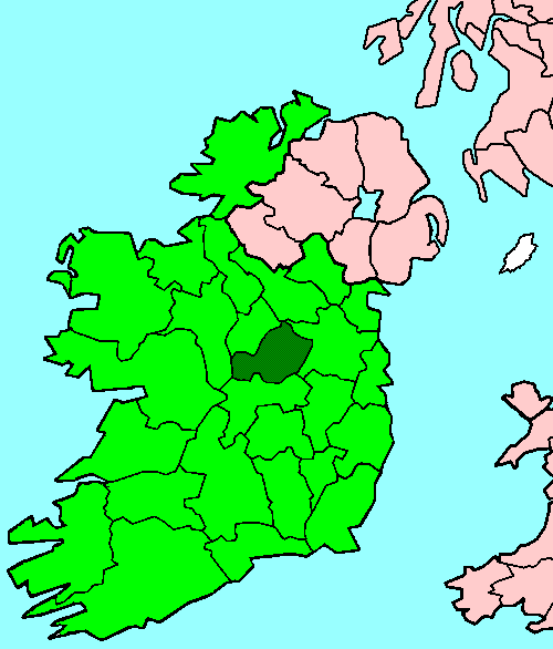 West Meath